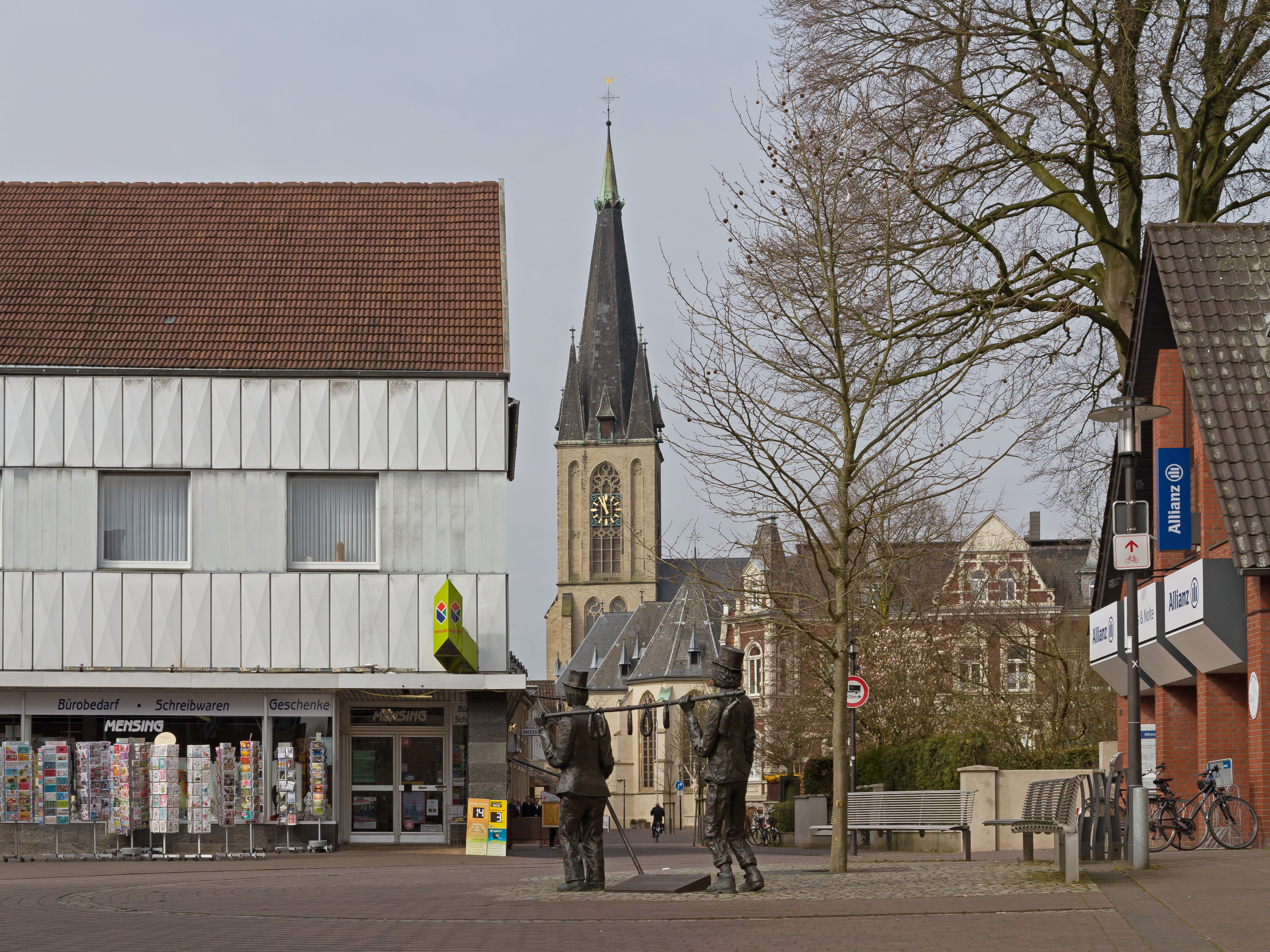 Gescher, sculpture (Brauchtum verbindet) with catholic Pfarrkirche Sankt PankratiusThis is a photograph of an architectural monument., no. 1